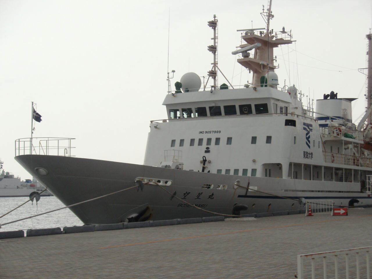 Bosei maru that moors in Osanbashi Pier (The main international pier at the Port of Yokohama) IMO number: 9057989